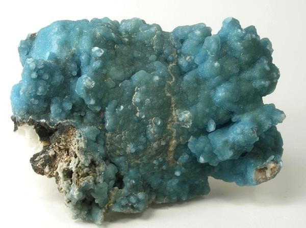 Plumbogummite, Mimetite Locality: Yangshuo Mine, Yangshuo County, Guilin Prefecture, Guangxi Zhuang Autonomous Region, China (Locality at ) Size: 8.9 x 6.9 x 2.8 cm. This fine and rich specimen was illustrated in the "What’s New from Munich" section of the March/April, 2007 issue of the Mineralogical Record, Vol. 38, No. 2, p. 162. Teal-blue plumbogummite covers crystals and a crust of yellow mimetite on quartz from the Yangshuo Mine of China, which is on the other side of the mountain from the Daoping Mine.